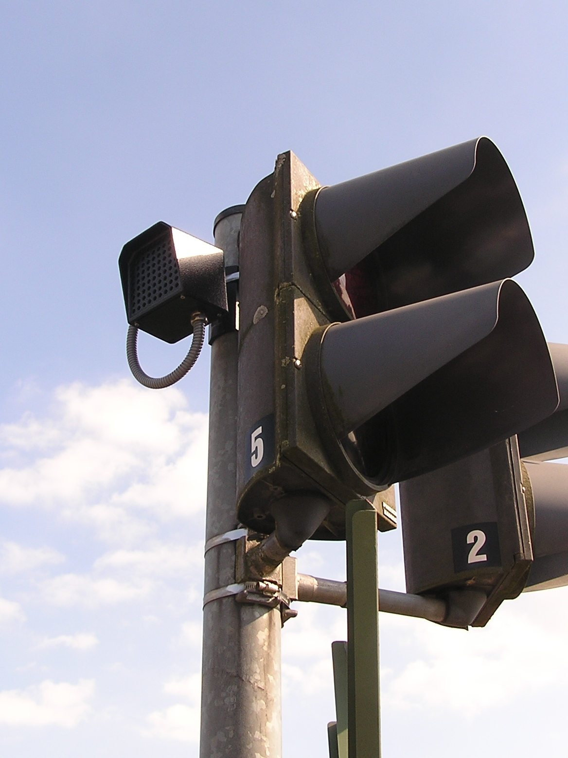 Loudspeaker for electronic warning signals at a german level crossing by Pintsch Bamag